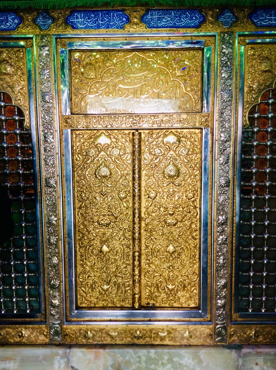 Shrine of Imamzadeh Qasem, Tajrish, Tehran, Iran